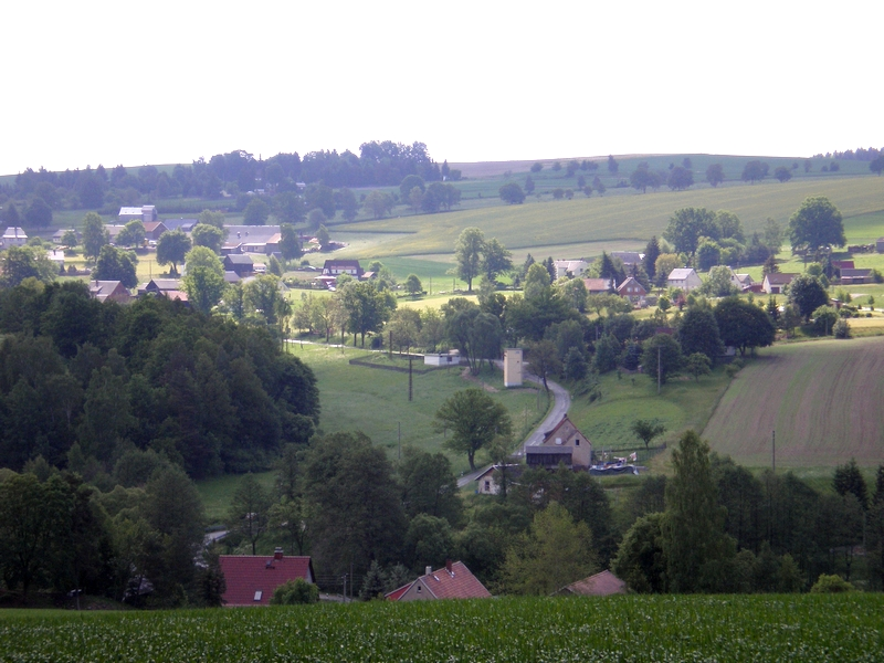 Marieney (Mühlental), Saxony, Germany